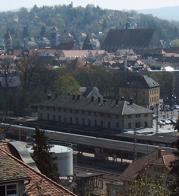 Schwäbisch Gmünd (Germany) train station. Background: view of the city with cathedral.